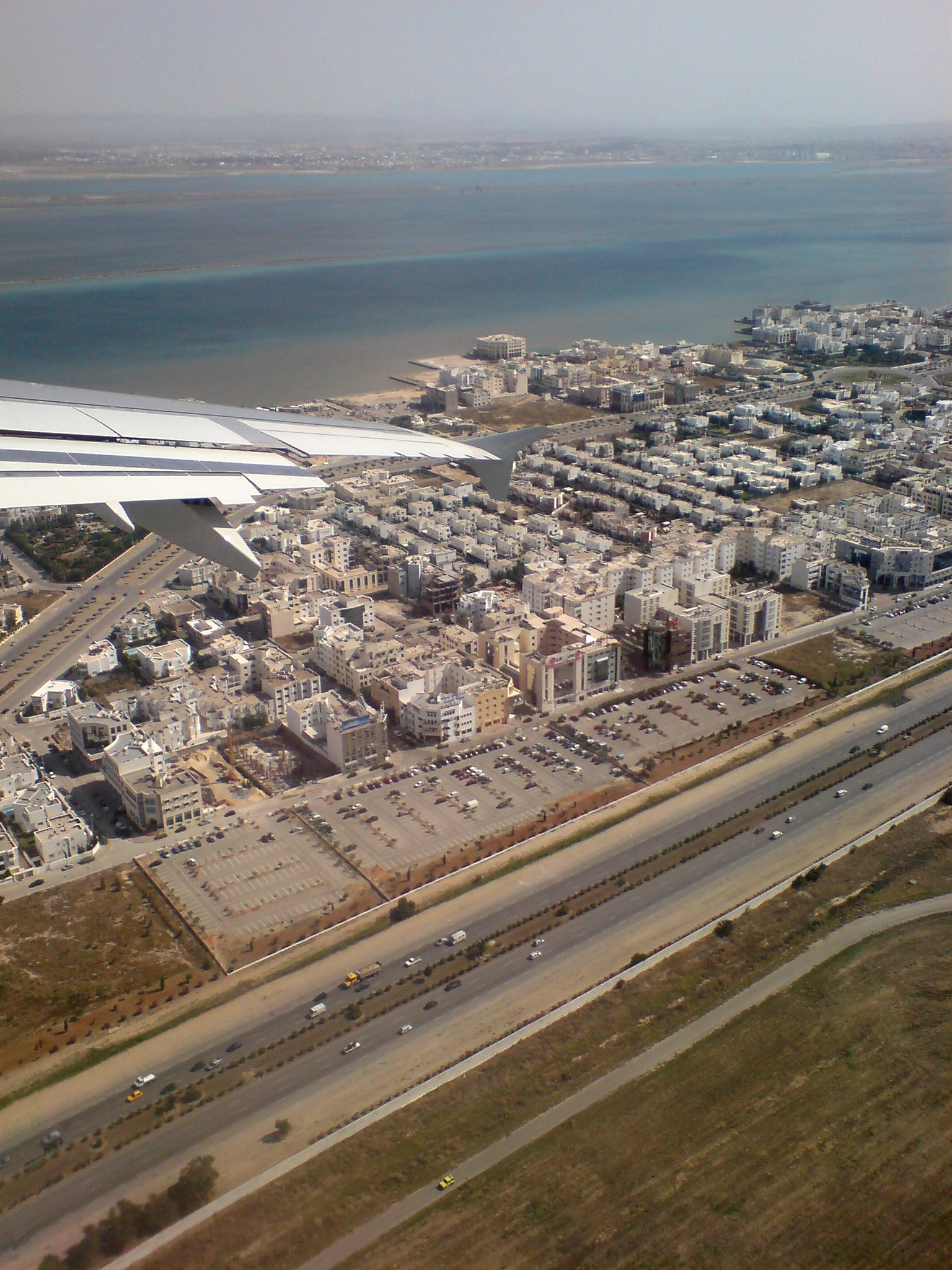 Aerial photo of 'Lac' city, Tunis